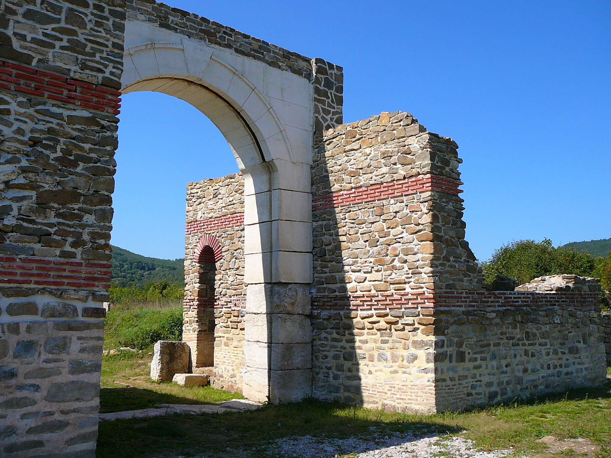 Sostra Fortress, Bulgaria